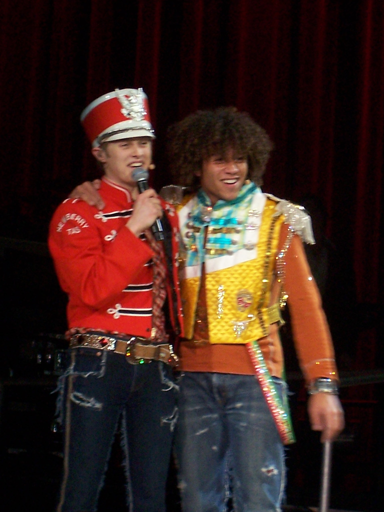 Lucas Grabeel and Corbin Bleu in concert of High School Musical